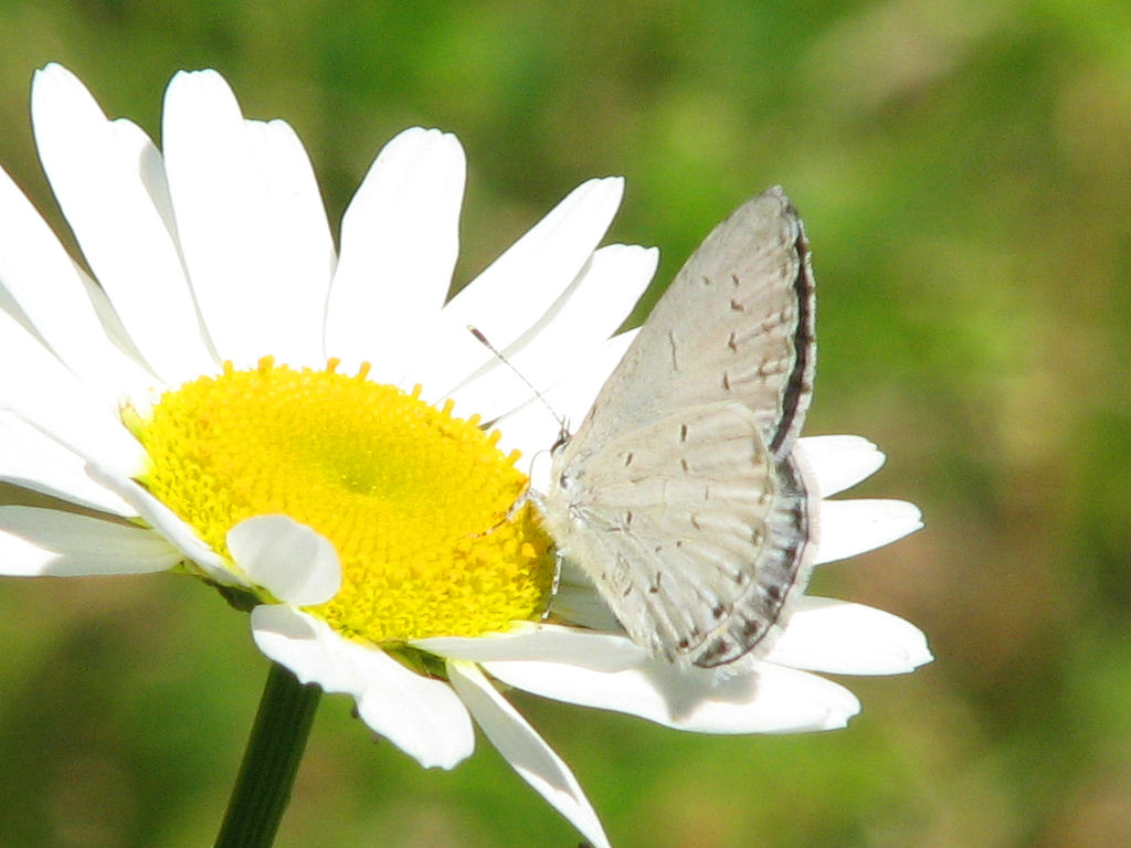 Summer Azure (Celastrina neglecta) on daisy {Bellis perennis}, Ottawa, Ontario, Canada